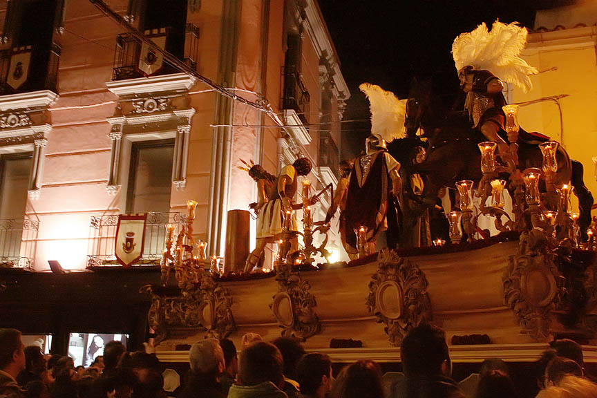 Parade of Holly Week in Ciudad Real, Spain.